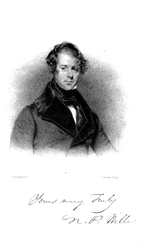 A young Nathaniel Parker Willis